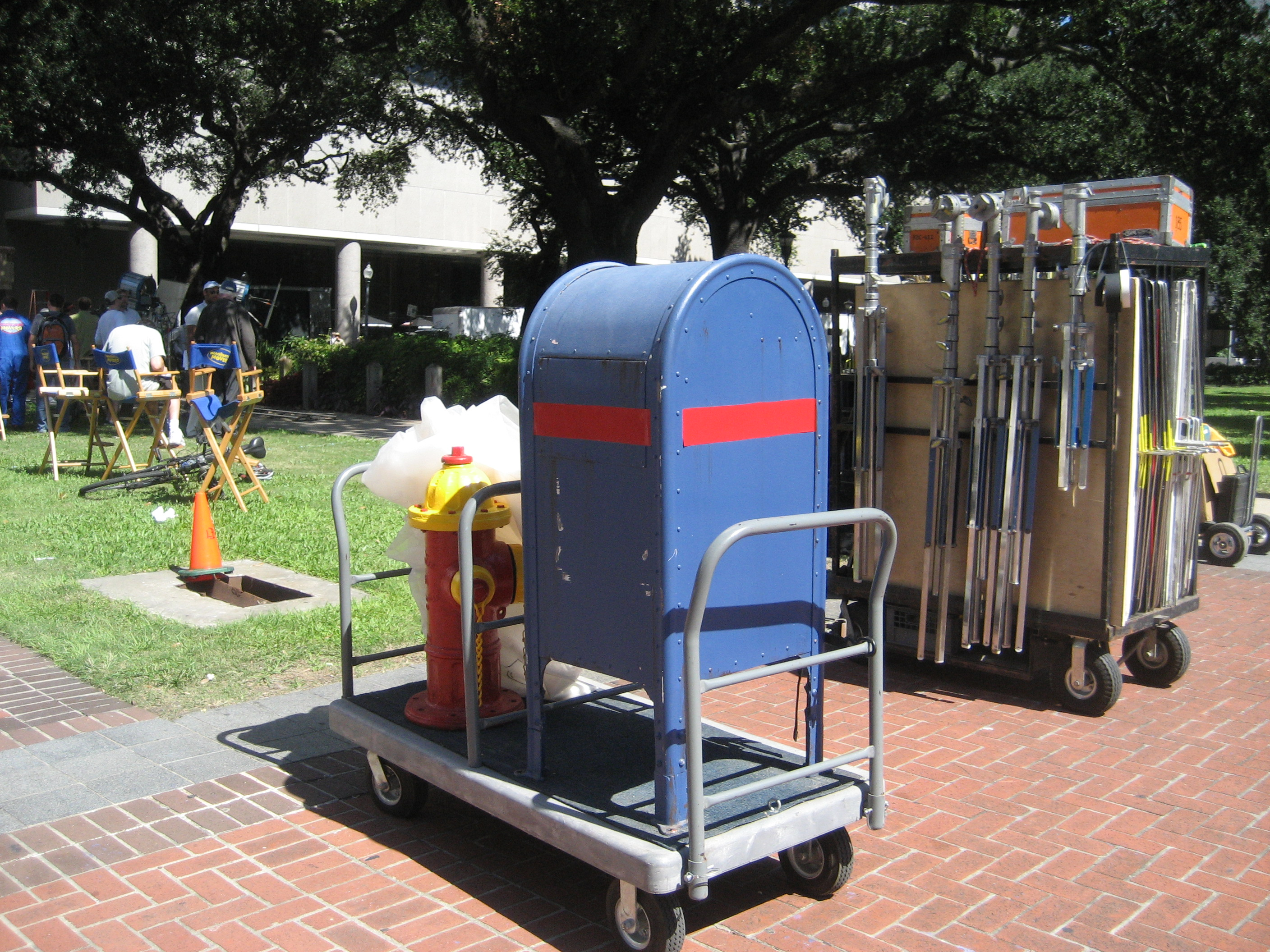 Lafayette Square, New Orleans. Prop mailbox and fire-hydrant, related to filming (commercial, tv show, or film, I don't know) in the area.